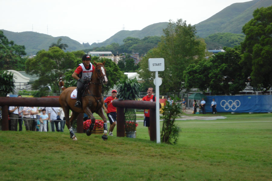 Beijing 2008 Olympic Game - Equestrian Event - Cross-Country Test of the Eventing Competition, held on The Olympic Equestrian Venue (Beas River) on 2008.8.13 - Sergio Iturriaga (Chile)